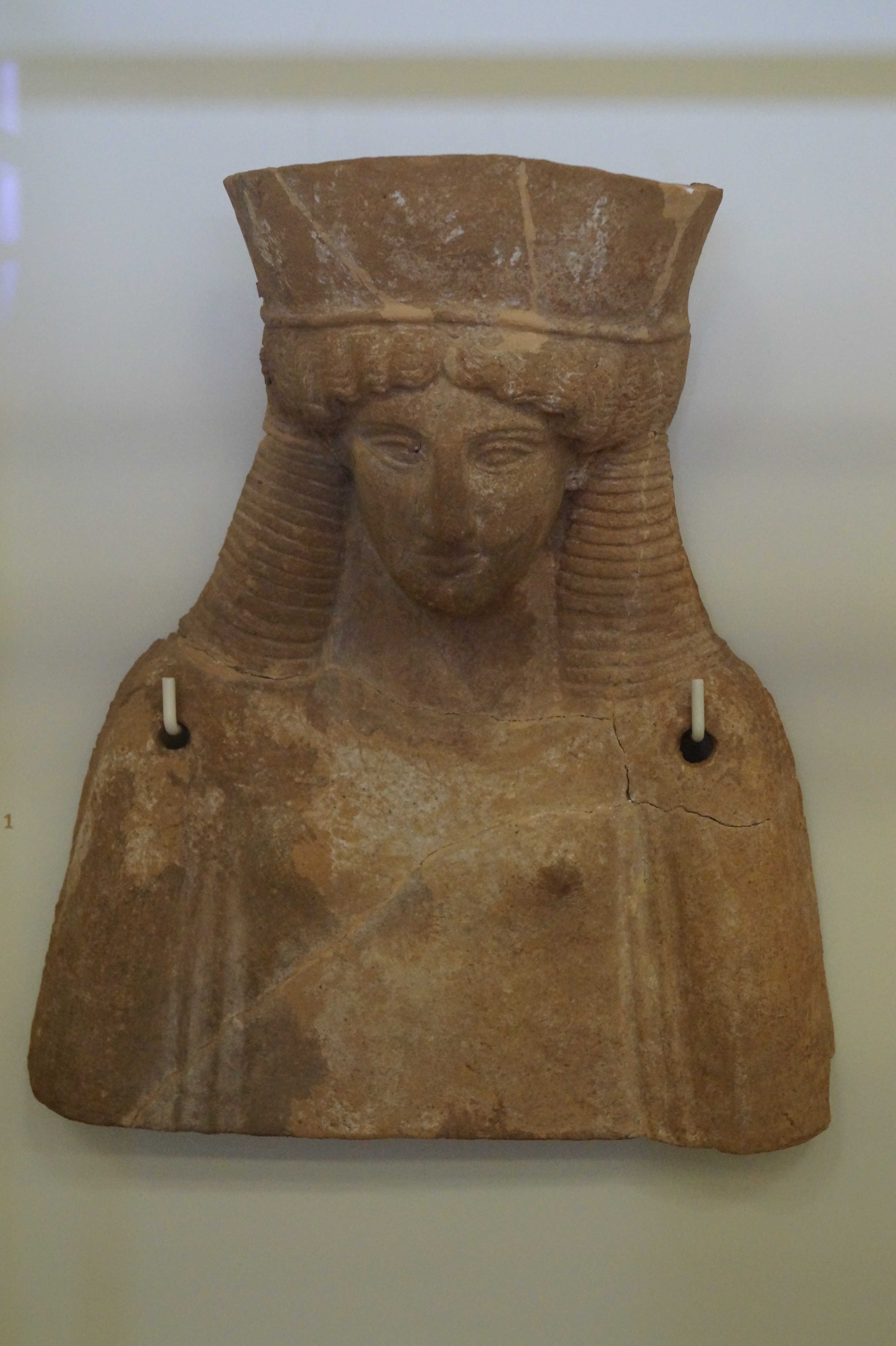 Archaeological Museum of Thebes: Female Protome (3rd quarter of 5th century BC) from Haliartus.